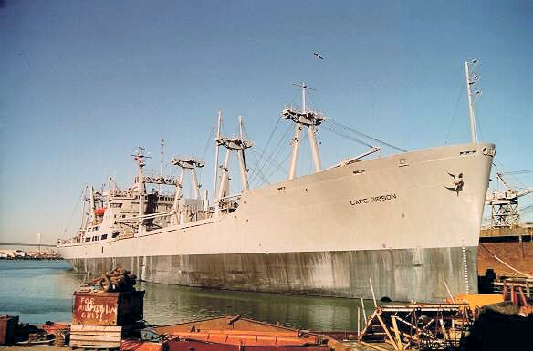 S.S. Cape Gibson (AK-5051) is a Cape G Class Break bulk cargo ship of the United States Maritime Administration, last used as a training ship at Texas A&M University at Galveston. Currently she is mothballed in the Beaumont Reserve Fleet.